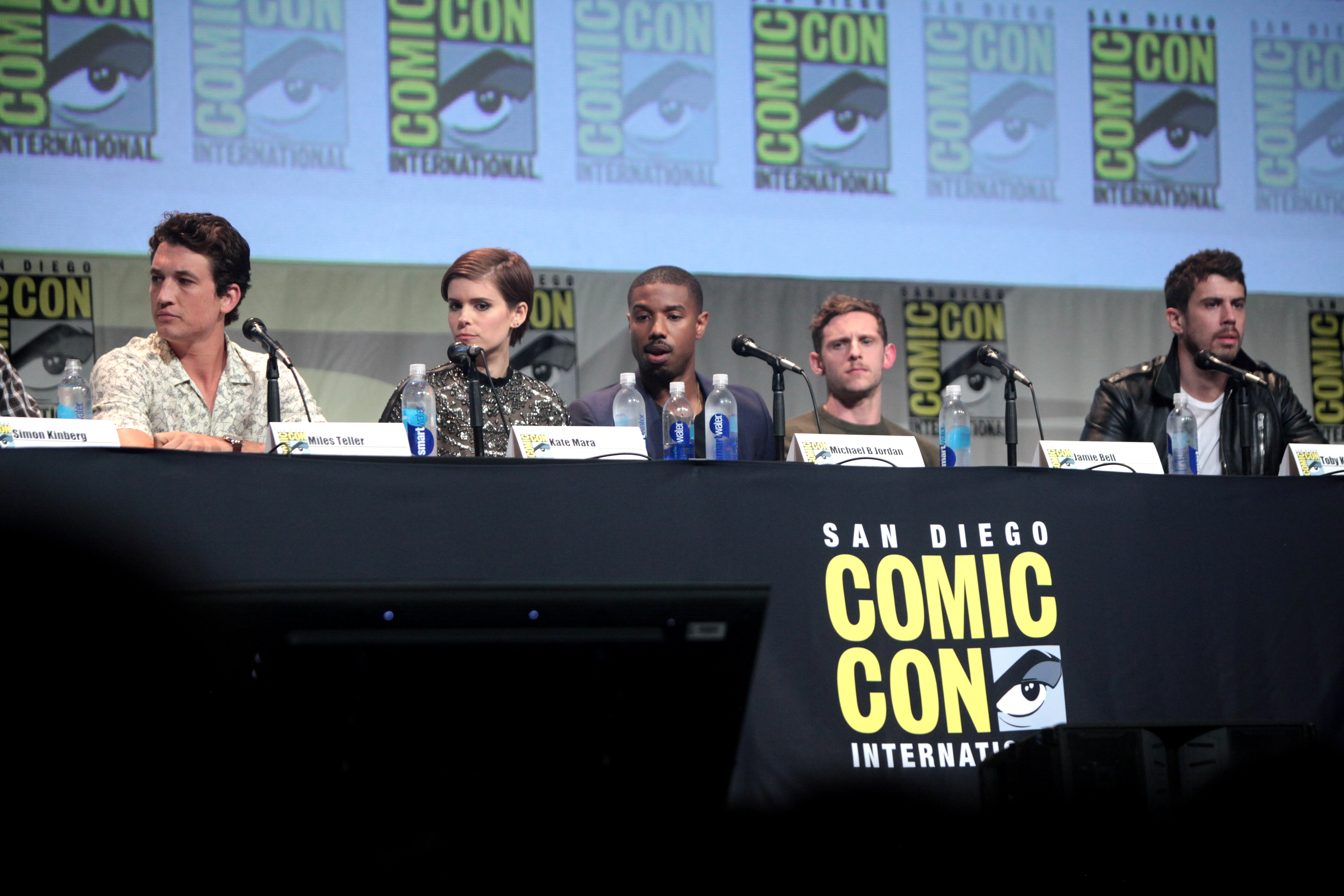 Miles Teller, Kate Mara, Michael B. Jordan, Jamie Bell and Toby Kebbell speaking at the 2015 San Diego Comic Con International, for "Fantastic Four", at the San Diego Convention Center in San Diego, California.